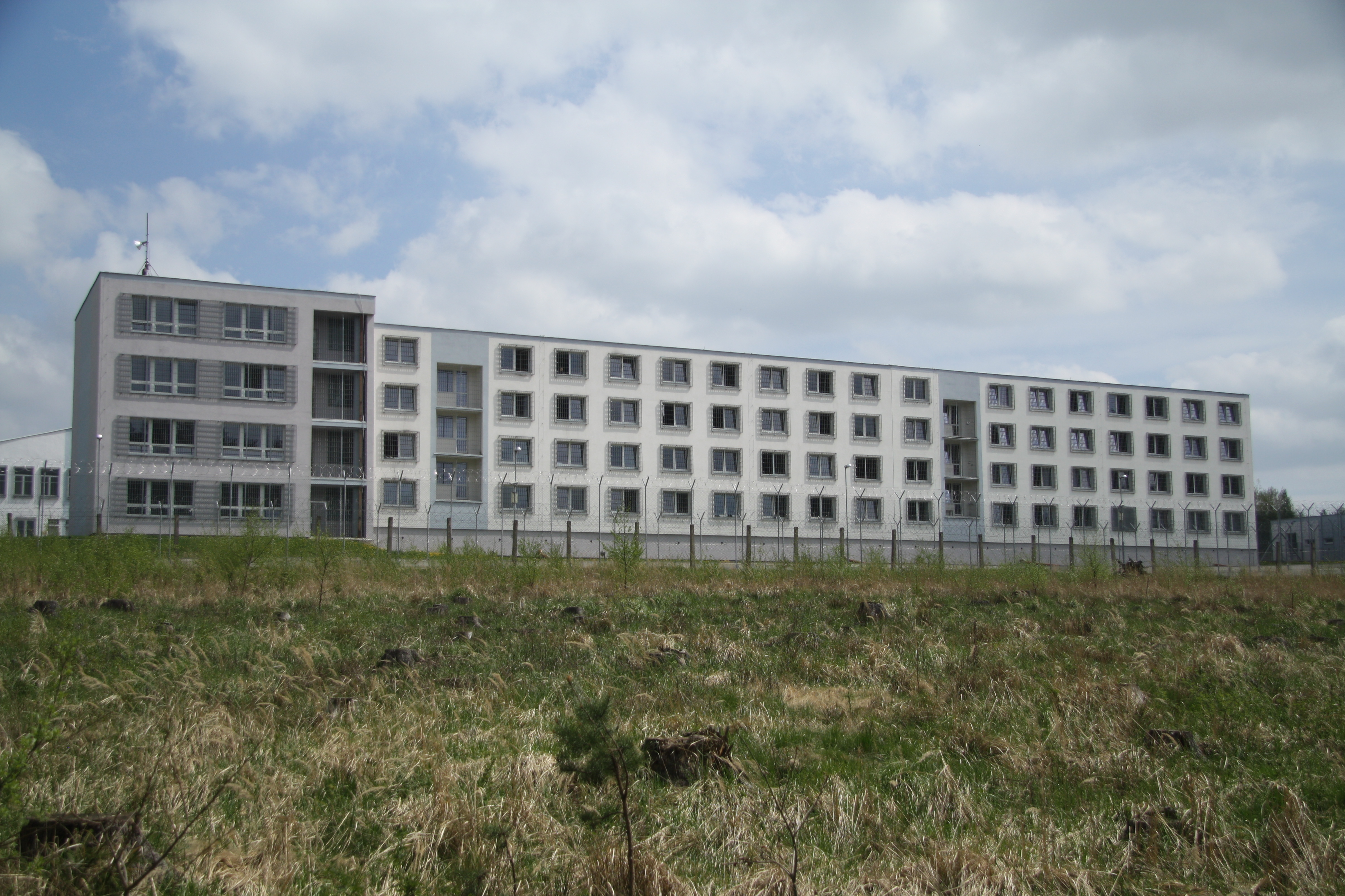 Prison houses in Rapotice, Třebíč District.